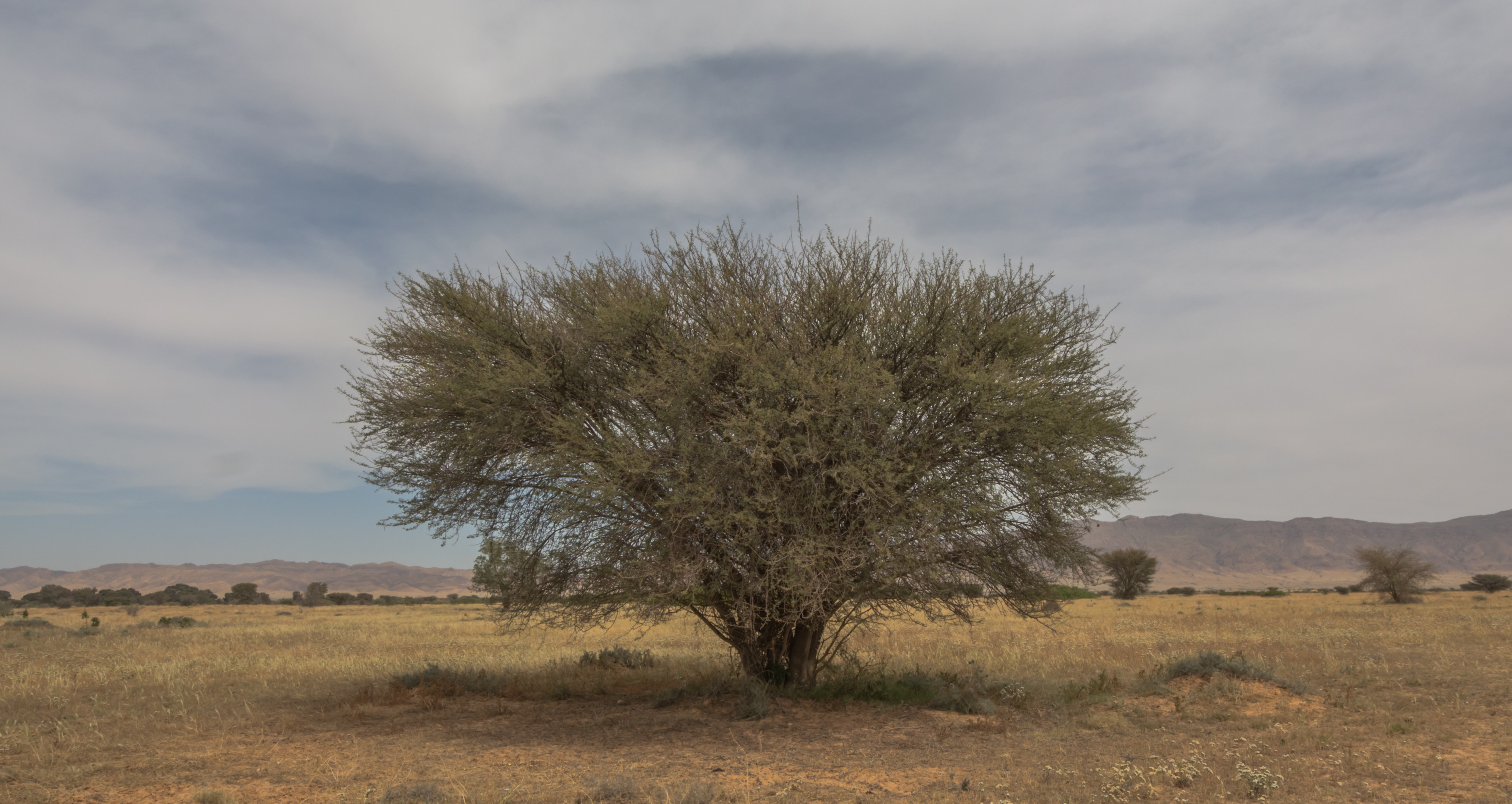 Acacia raddiana in Bouhedma National parc.